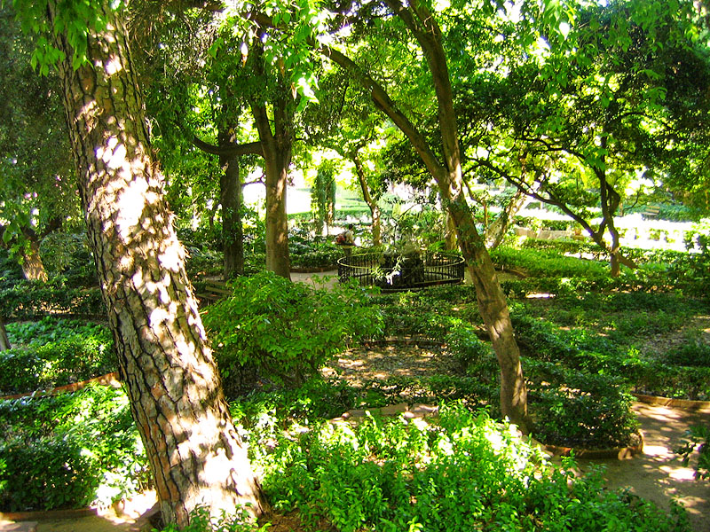 Jardí de Monfort, Valencia